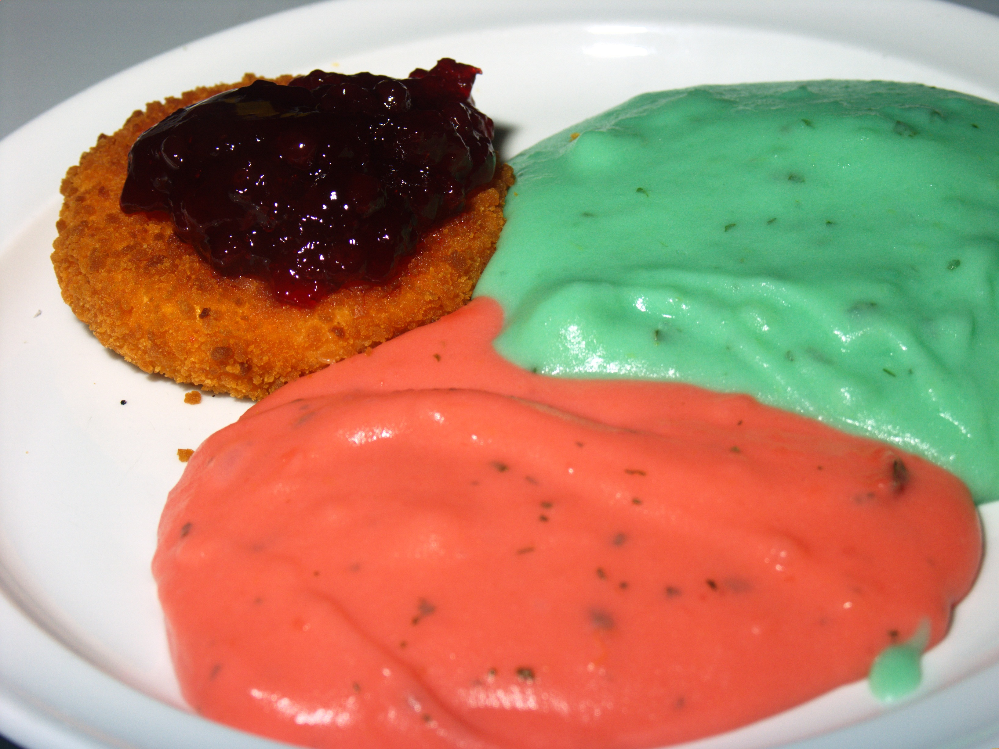 Mashed potatoes colored with food coloring